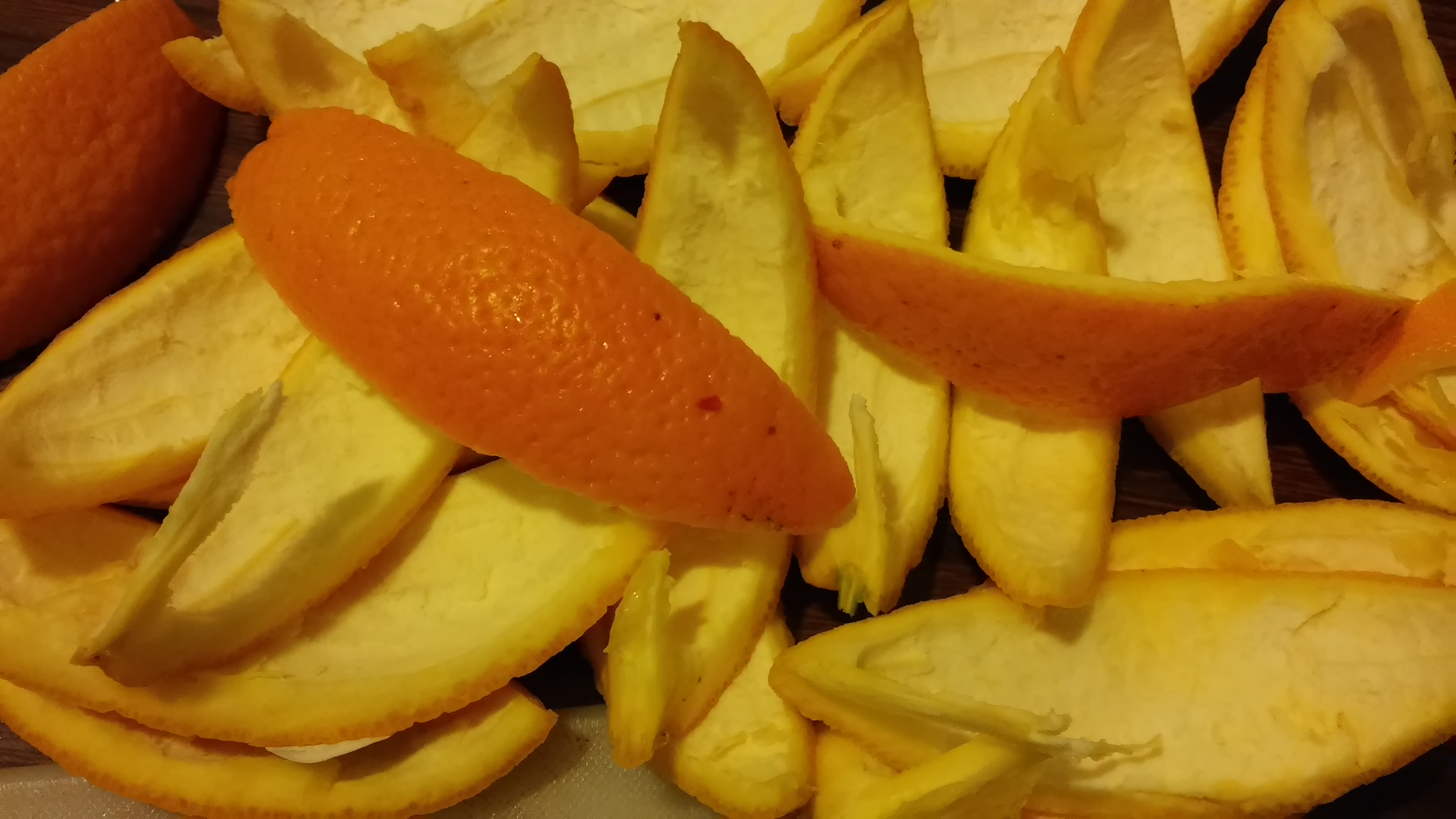 HK fruit orange peels skins lighting Nov 2014 Or